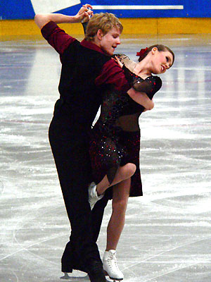 Grethe Grünberg and Kristian Rand during their original dance at the 2006 Junior Grand Prix event in The Hague, Netherlands